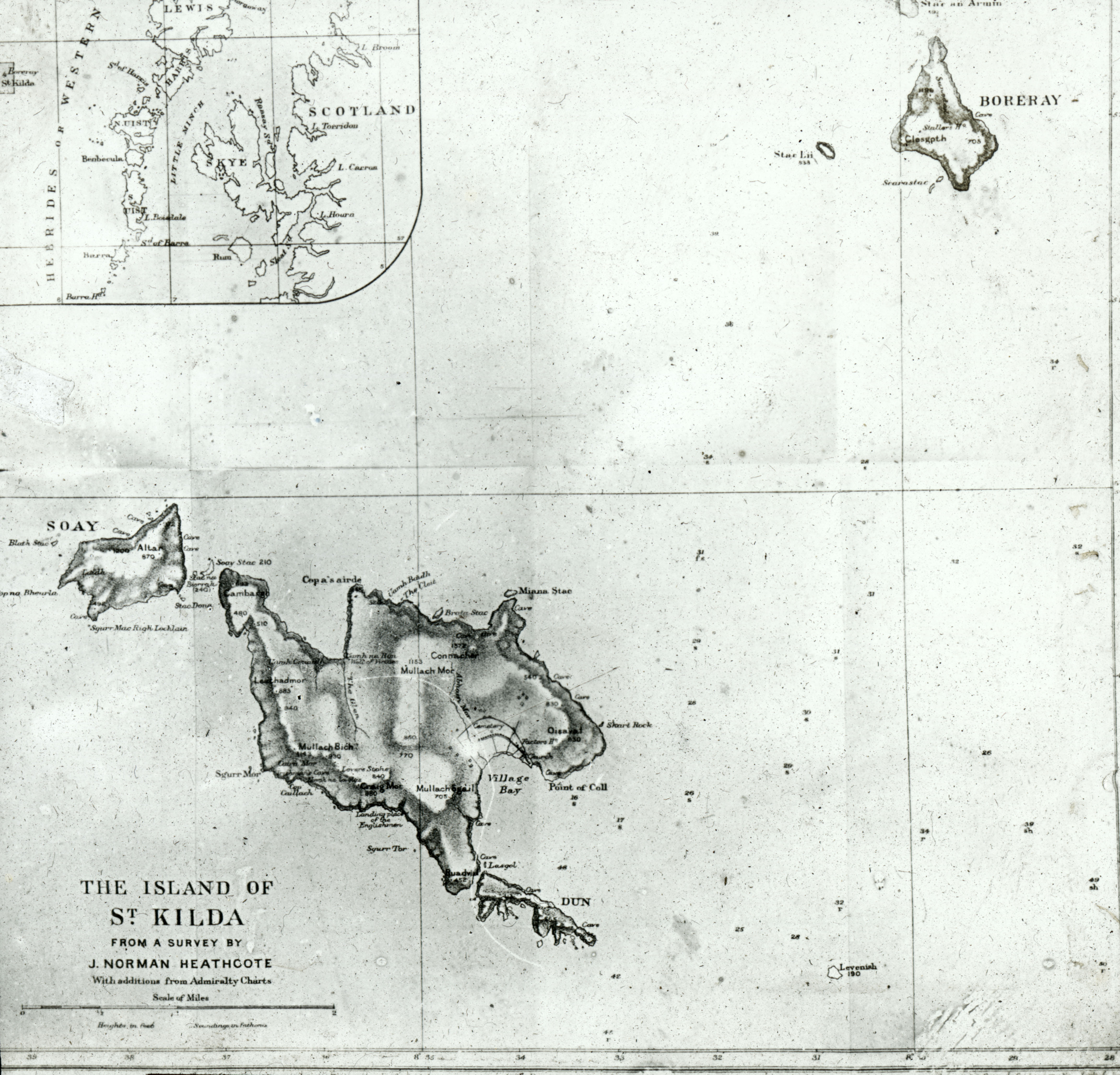 Glass slide of a map of St Kilda, Soay, Dun and Boreray, plus context map inset. "From a survey by J. Norman Heathcote". Map of St Kilda, Scotland surveyed and drawn by Norman Heathcote